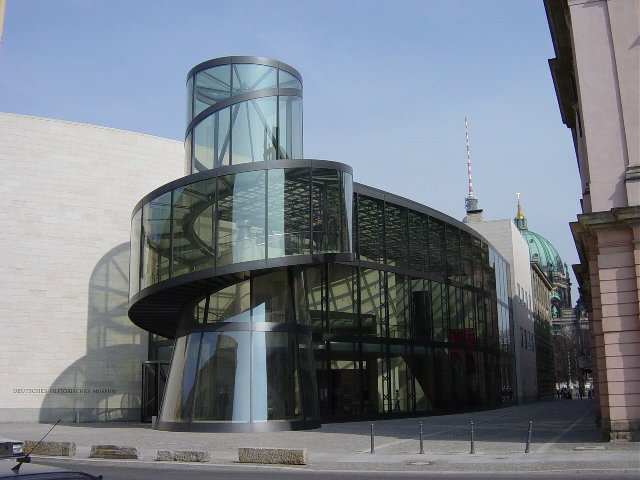 Deutsches Historisches Museum (German Historic Museum) in Berlin, Germany. Extension premises by I. M. Pei taken by Mazbln on 3 April 2004